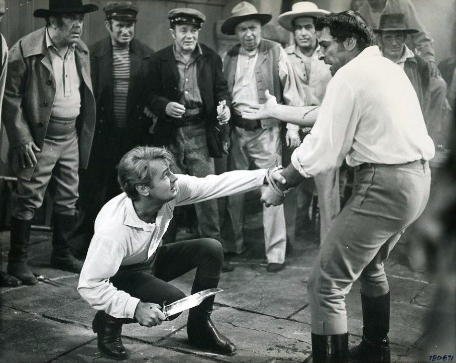 Studio Publicity Photograph of Tony Caruso and Allan Ladd in the 1952 film, The Iron Mistress.